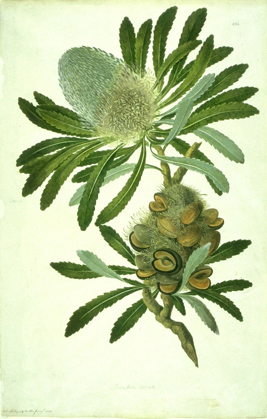 This is a watercolour-on-paper drawing of Banksia serrata. The attributed artist is John Frederick Miller, but the work would have been heavily based on a partially coloured sketch by Sydney Parkinson, Sir Joseph Banks' botanical artist who was present when the species was first collected at Botany Bay, Australia.